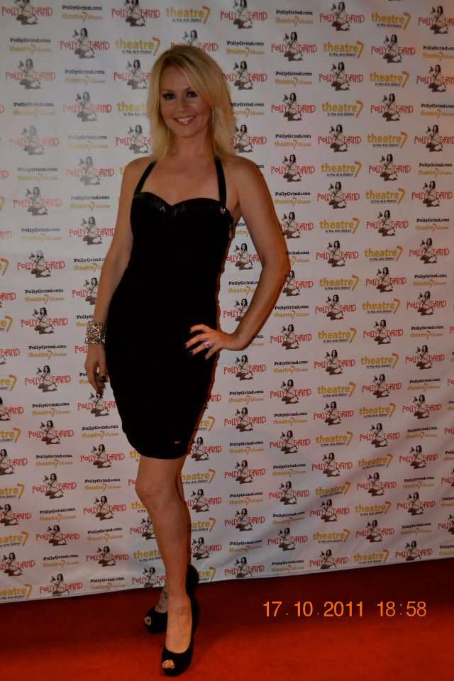 Actress Beverly Lynne at PollyGrind Film Festival 2011